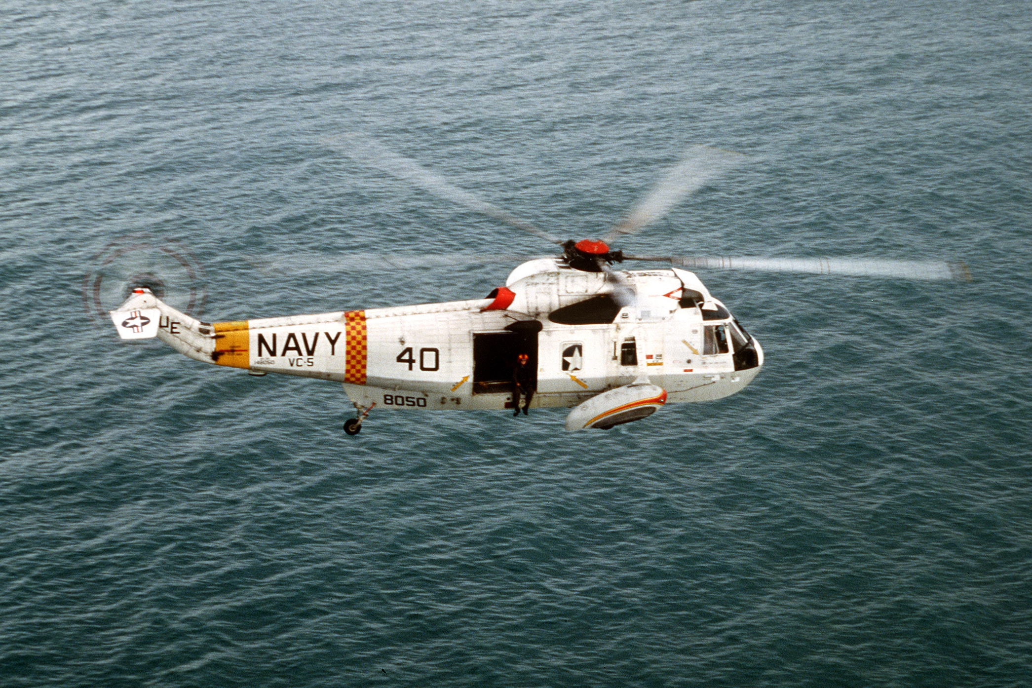 A U.S. Navy Sikorsky SH-3G Sea King helicopter (BuNo 148050) from Fleet Composite Squadron 5 (VC-5) in flight, in 1981.